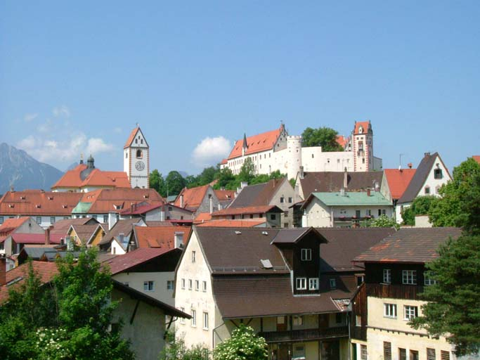 Füssen in Bavaria